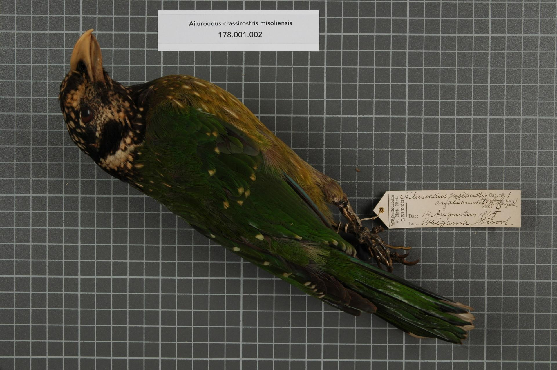 Ailuroedus crassirostris misoliensis Mayr & de Schauensee, 1939